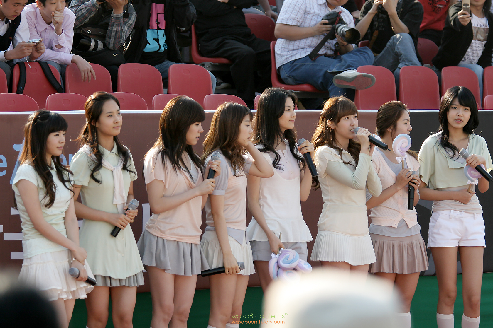 Girls' Generation performing at the 2008 beach volleybal competition in Jamsil.